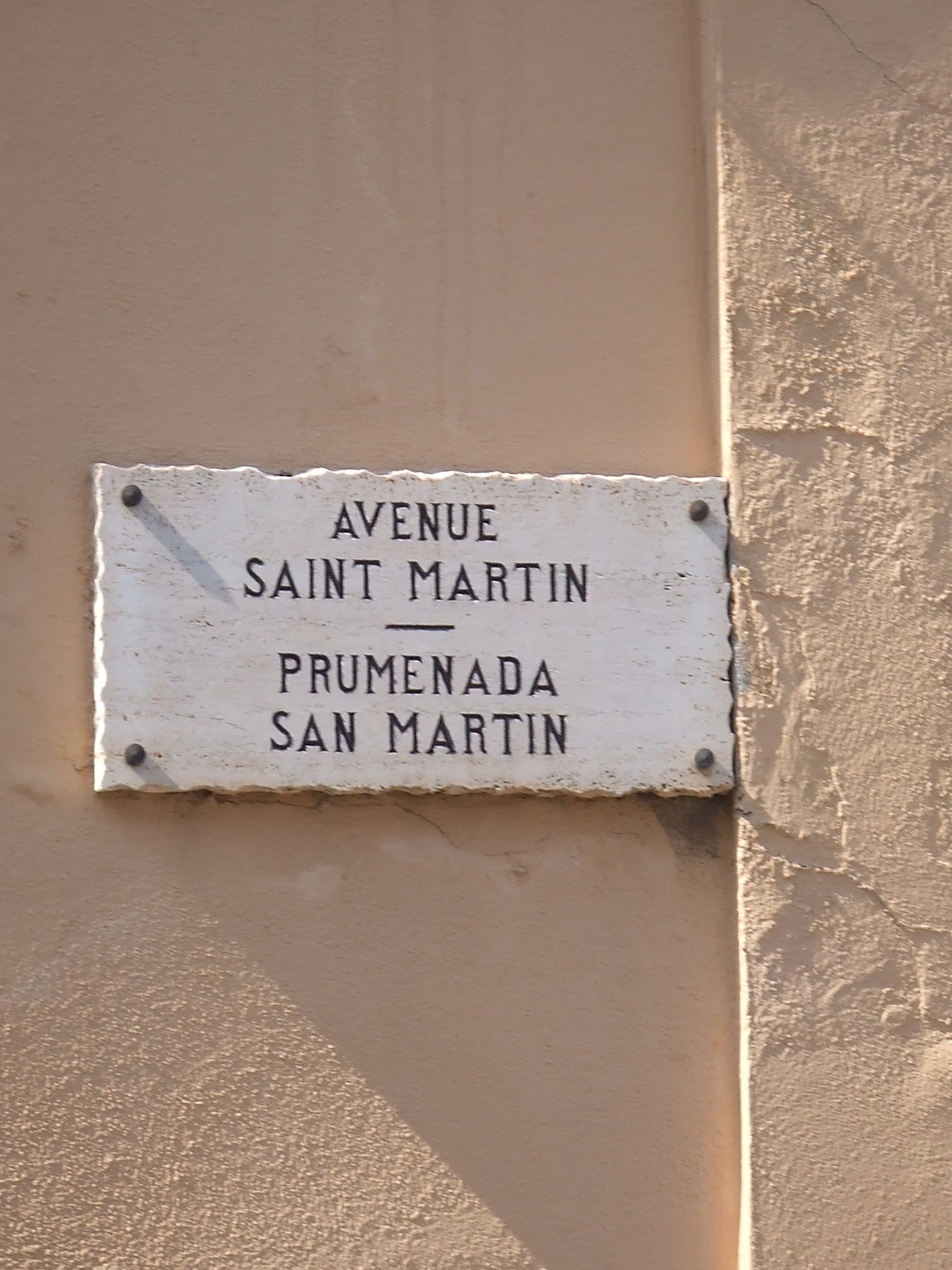 Street sign in Monégasc and French in Monaco-Ville (Monaco)